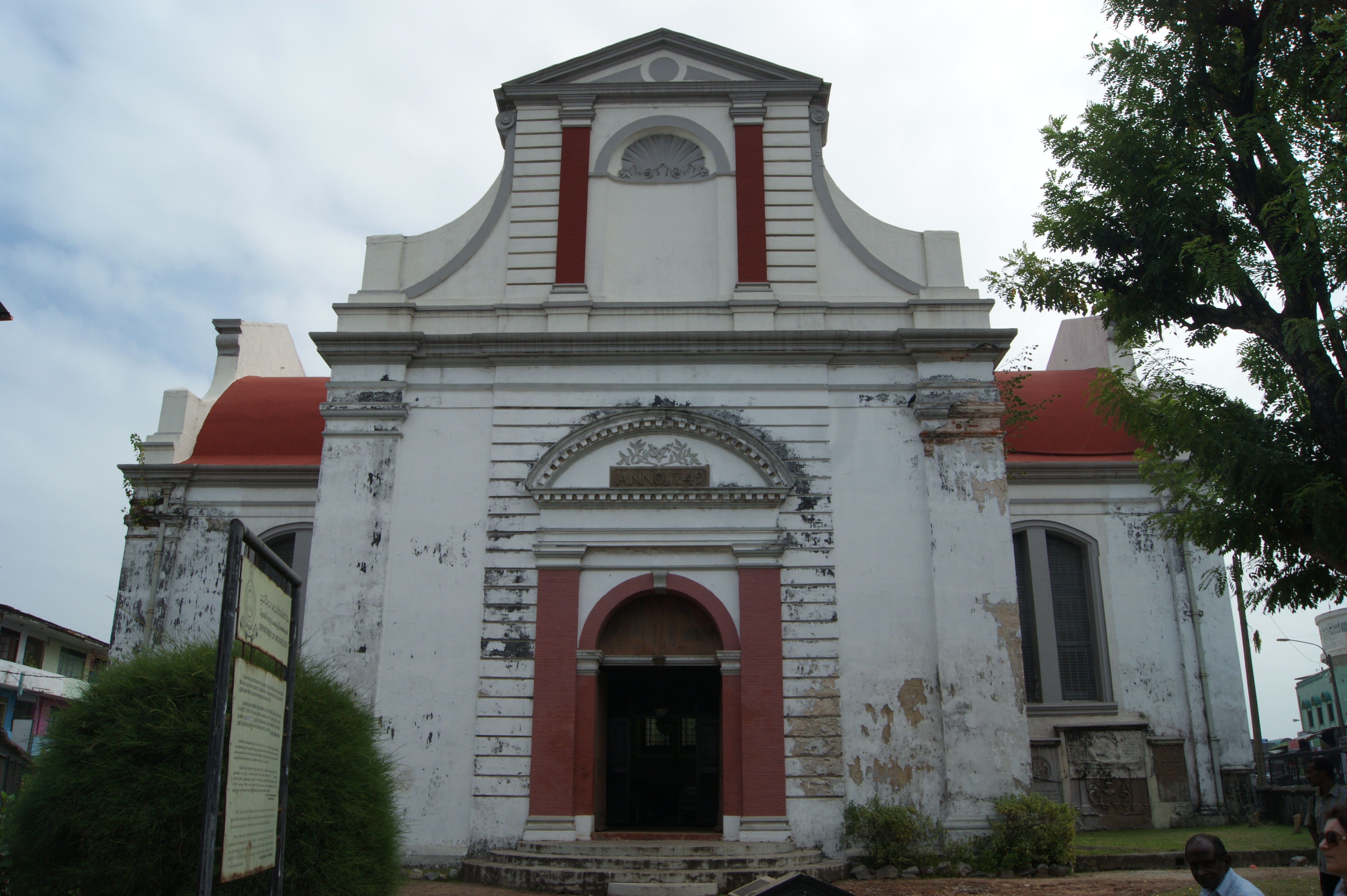 Main entrance at Wolvendaal Church, Colombo